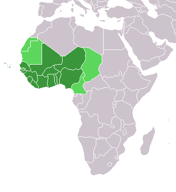 West Africa countries